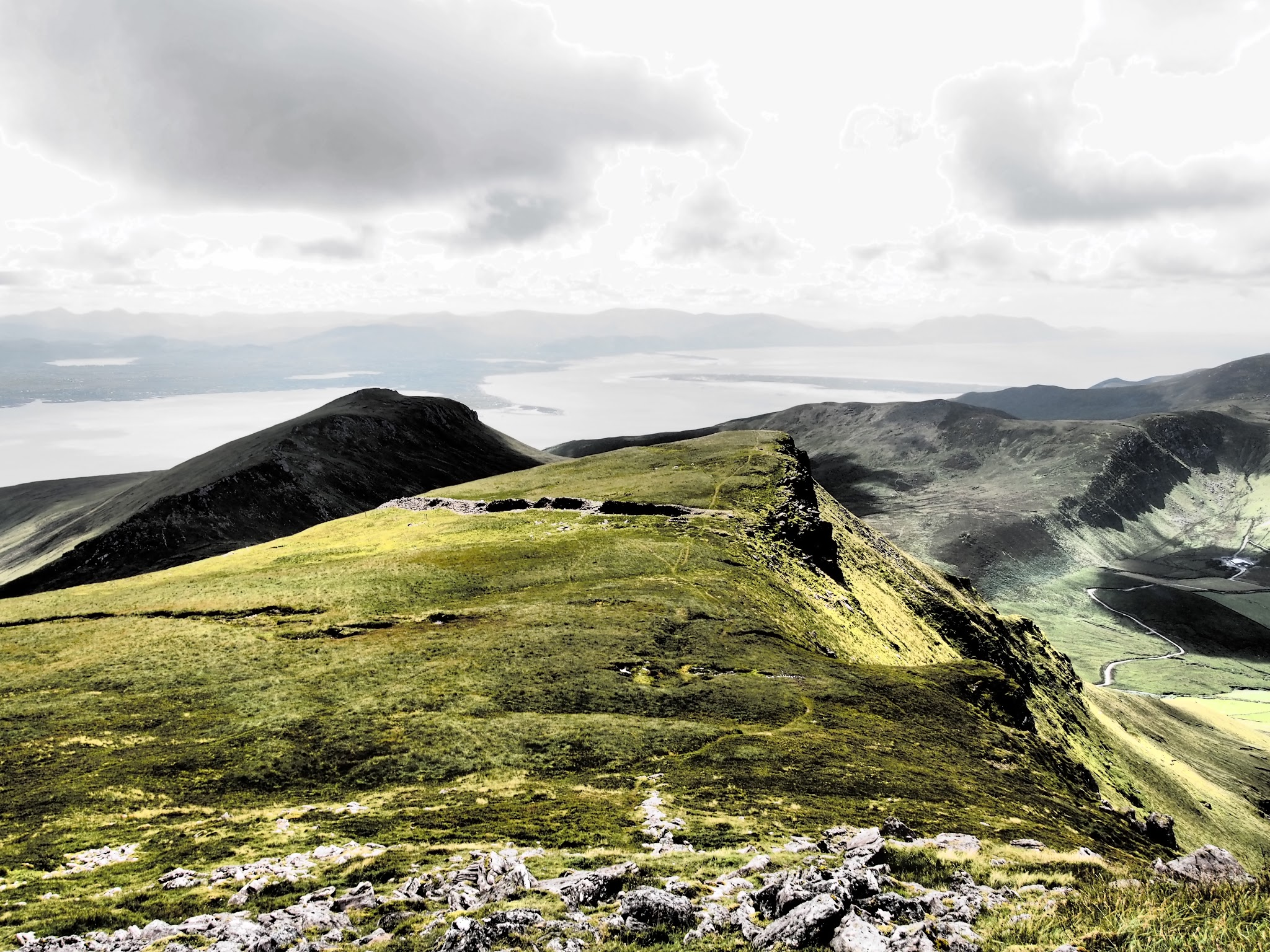 Caherconree Promontory Fort